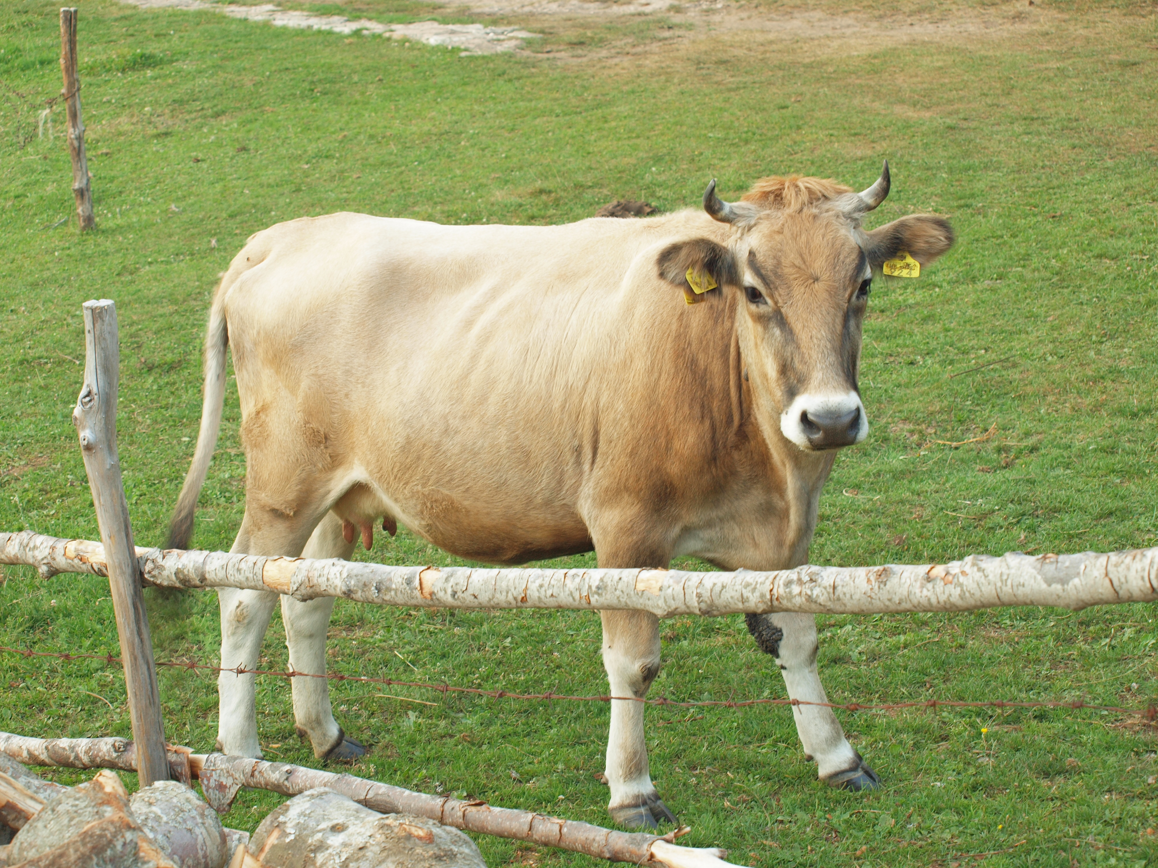 Buša cattle autohtonous cattle of the Dinarids